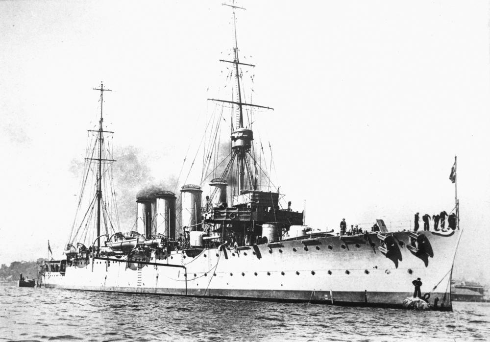 Sydney (ship) H.M.A.S. Sydney, which engaged and destroyed the German cruiser Emden. (Description supplied with photograph.).